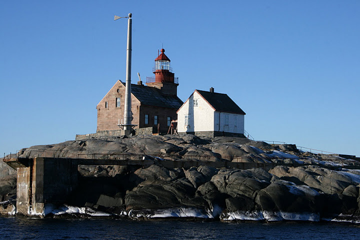 Torbjørnskjær lighthouse, Ytre Hvaler national park